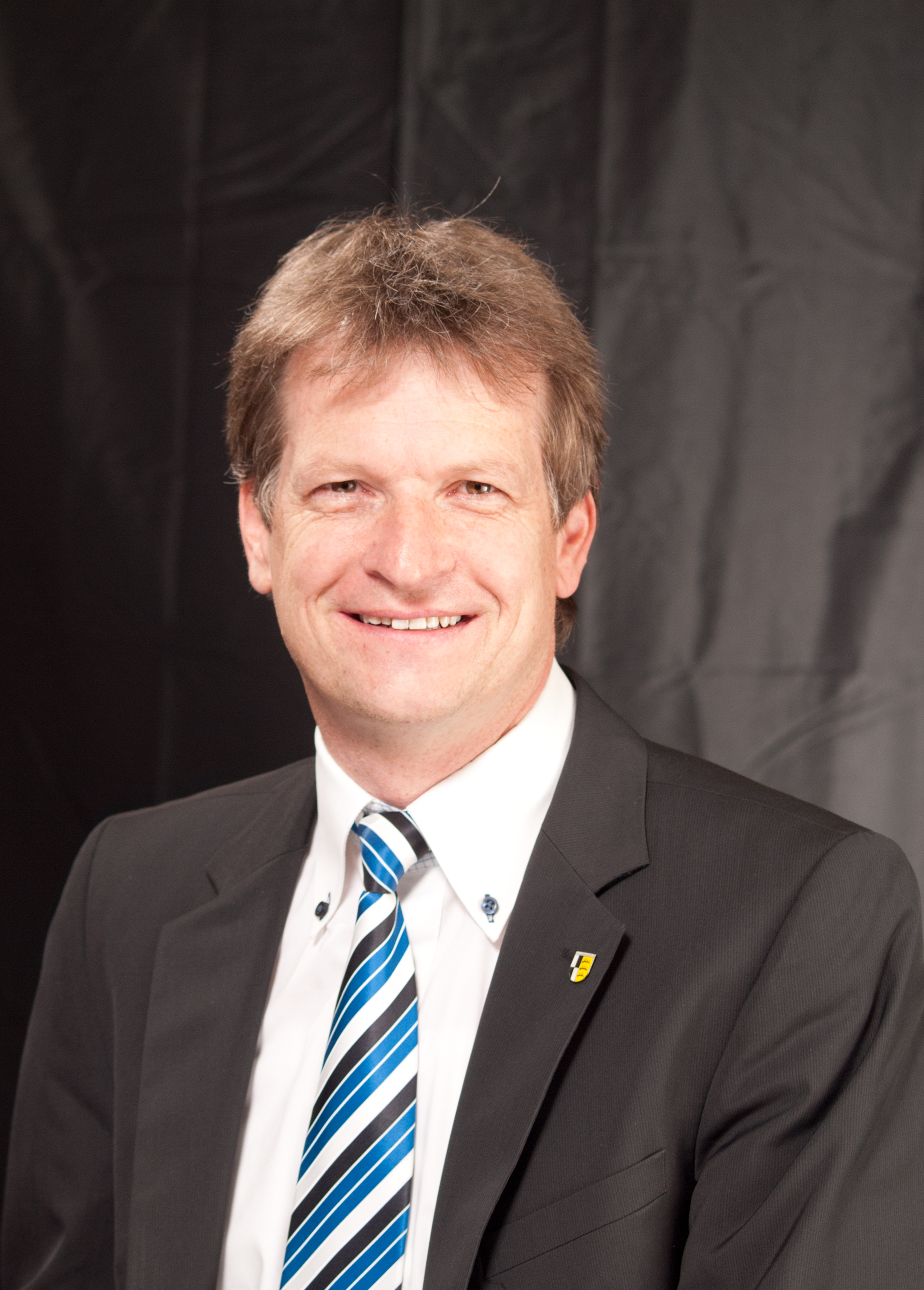 Günter-Martin Pauli Wikipedia im Landtag – Baden-Württemberg 15.–16. Mai 2013 in Stuttgart Fragen zur Nachnutzung Wenn Sie Fragen zur Nachnutzung dieses Bildes haben, können Sie sich jederzeit gern an wenden Personality rights warning Although this work is freely licensed or in the public domain, the person(s) shown may have rights that legally restrict certain re-uses unless those depicted consent to such uses. In these cases, a model release or other evidence of consent could protect you from infringement claims.